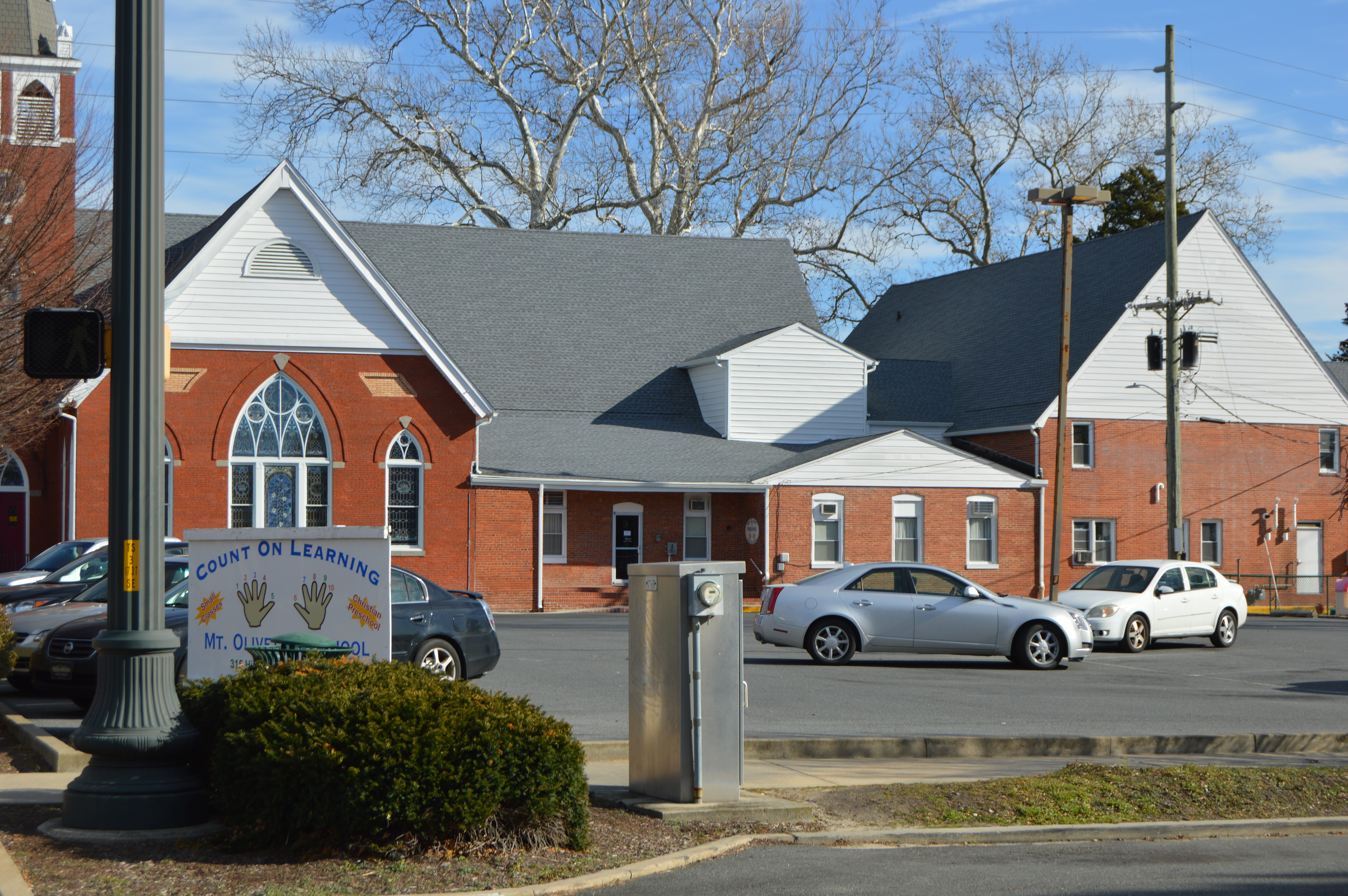 Overview of the lot on the southeastern corner of the intersection of High and Cannon Streets in Seaford, Delaware, United States. Mount Olivet United Methodist Church stands in the background. This was formerly the site of the Building at High and Cannon Streets; listed on the National Register of Historic Places in 1987, it has not yet been removed despite its destruction in a 2012 fire.